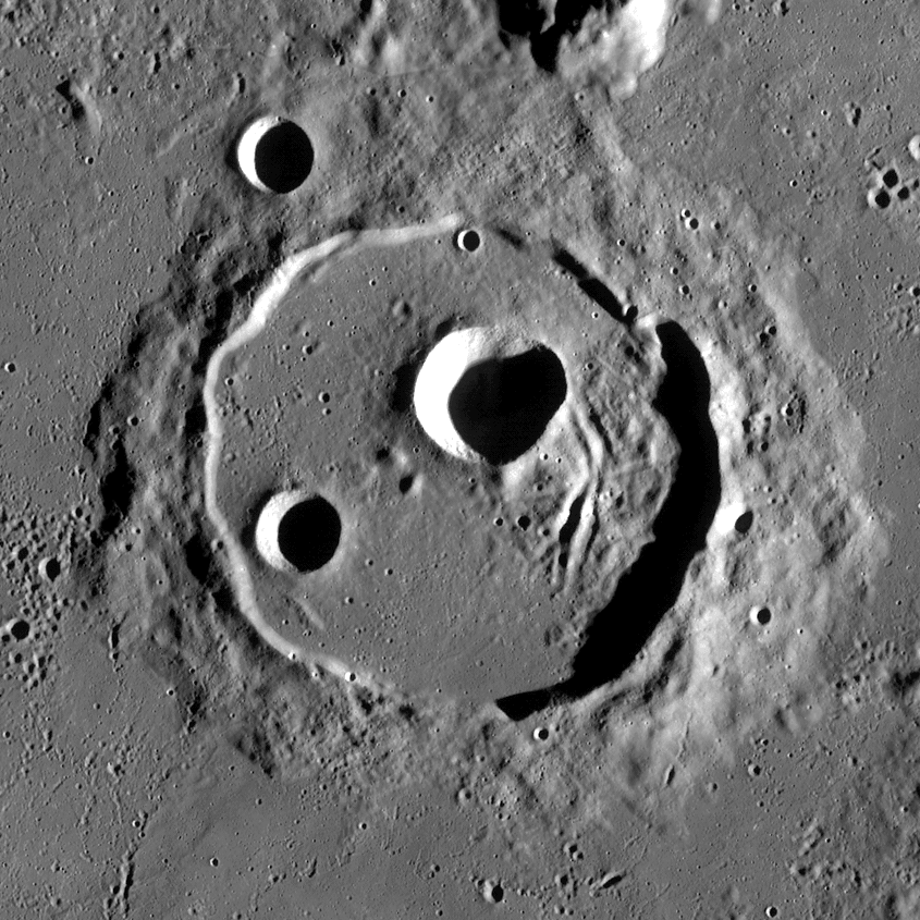 Crater Cassini on the Moon, in Mare Imbrium. Mosaic of photos by Lunar Reconnaissance Orbiter, made with Wide Angle Camera. Size of the image is 100×100 km, north is up.